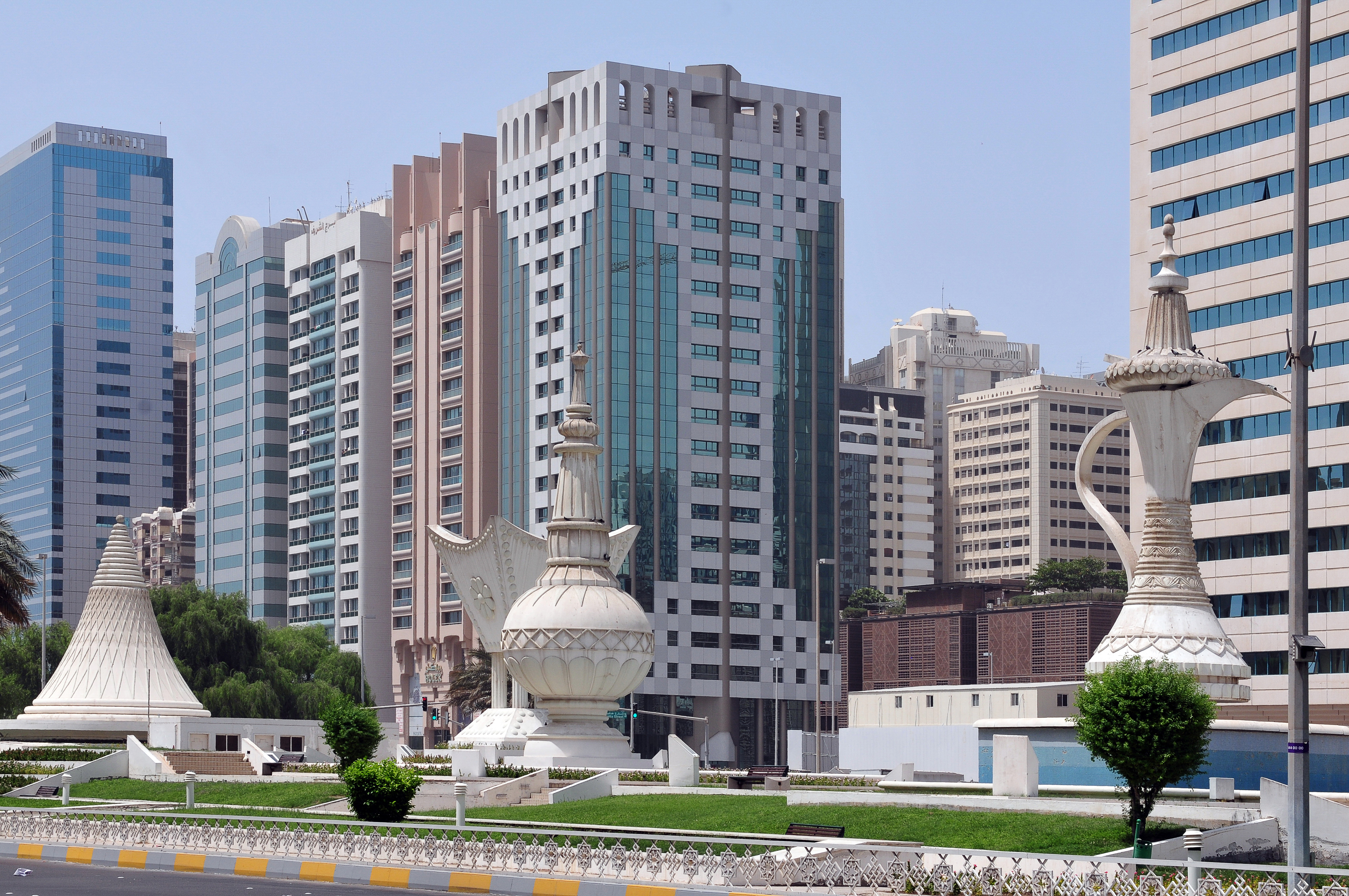 Abu Dhabi, center of town